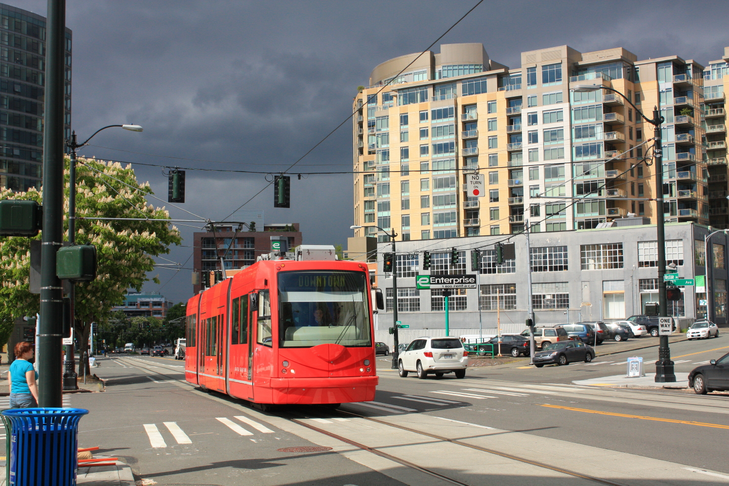 Southbound red South Lake Union streetcar on Westlake Avenue crosses Lenora Street on 3 May 2010.